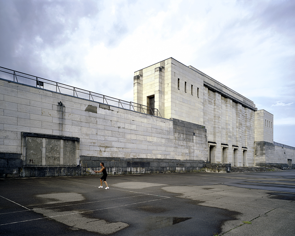 Photograph from a series on the former nazi party rally grounds in Nuremberg